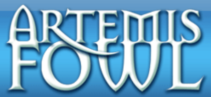 Logo of Artemis Fowl - by Eoin Colfer